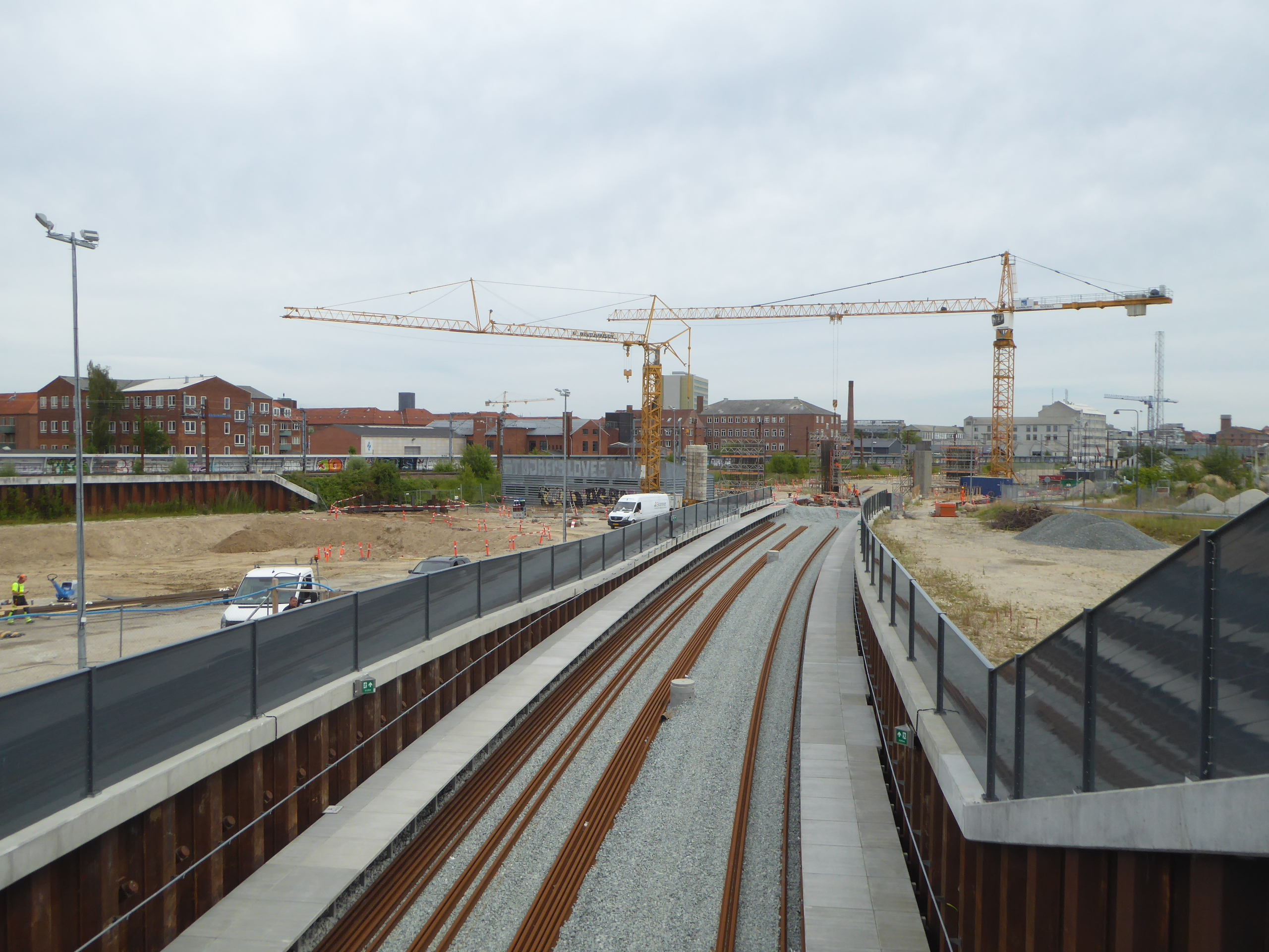 Construction of the new railway between Copenhagen and Ringsted at Retortvej in Vigerslev in Copenhagen.